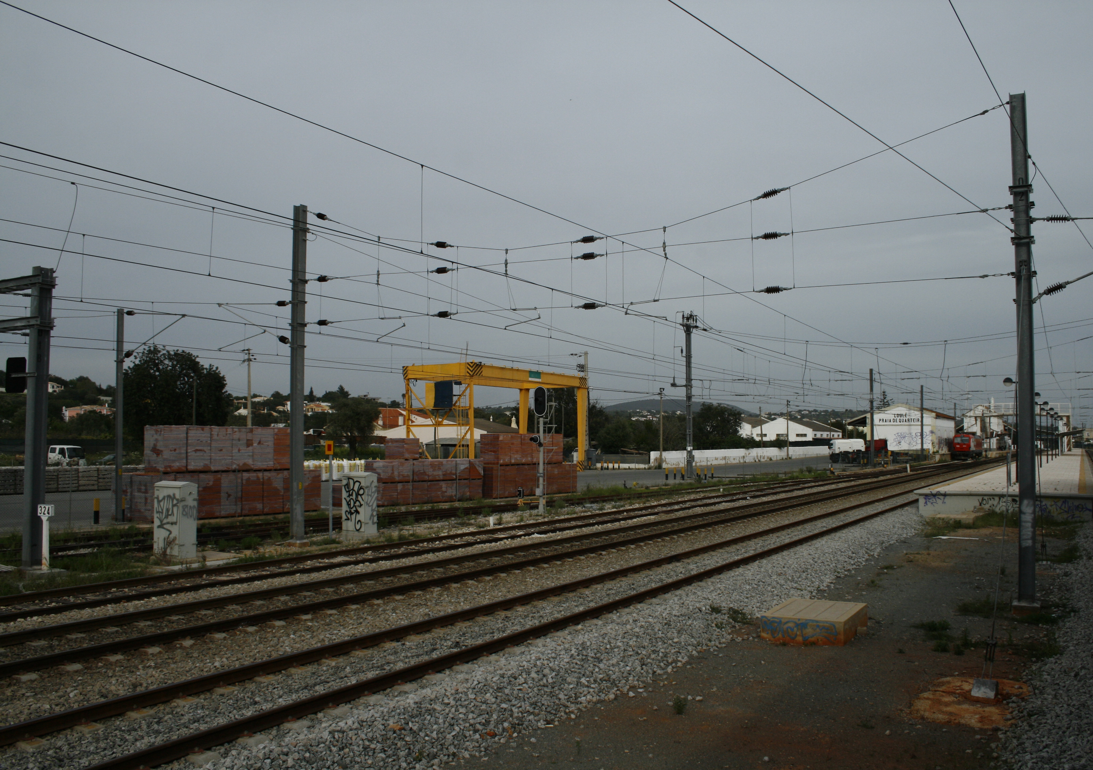 Loulé freight yard, part of the Loulé-Praia de Quarteira Train Station, in the Algarve Line, in southern Portugal.